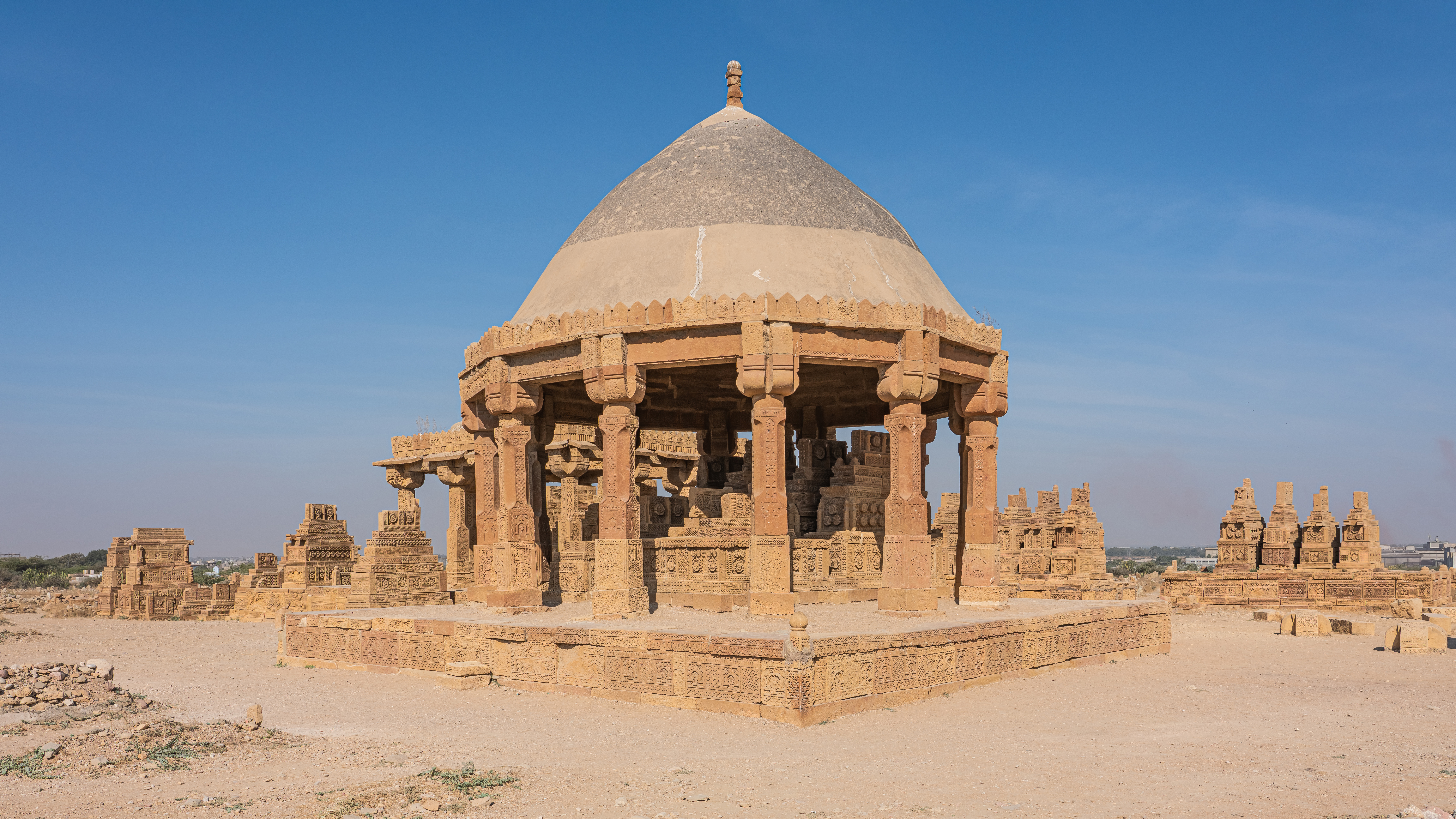 Chaukhandi Necropolis near Karachi, Pakistan